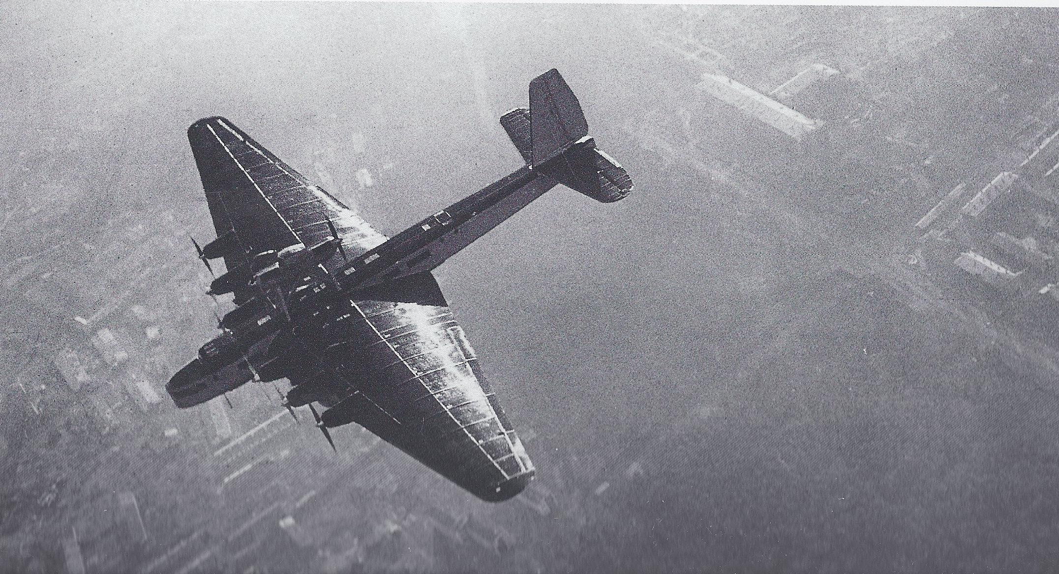 ANT-20 "Maxim Gorky" near Khodynka aeroport.